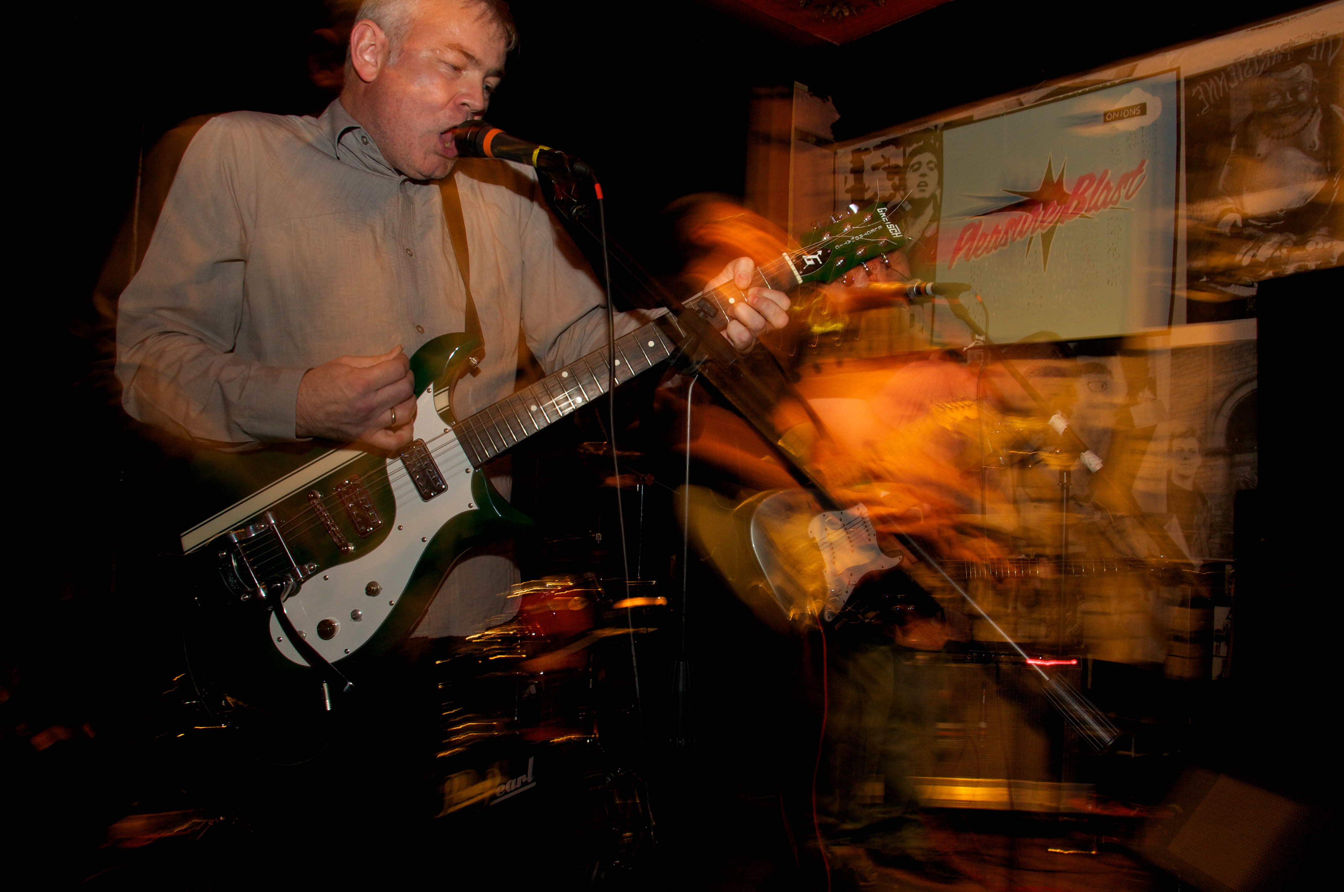 The Wolfhounds. Un-Peeled - a Tuff Life Boogie event Gullivers, Manchester October 2012 New neate photos facebook page with more Un-Peeled scenes. © All Rights Reserved. More neate photos